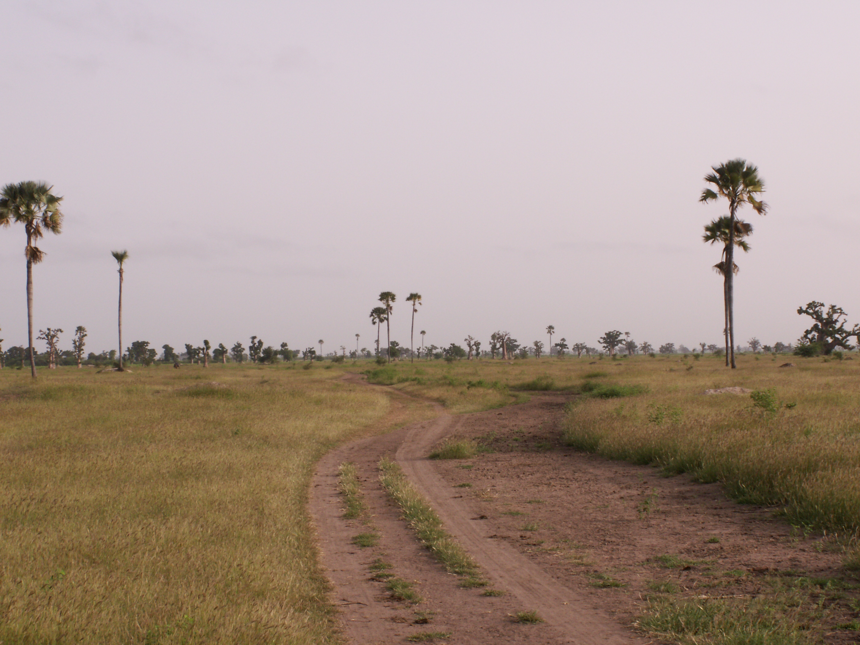 The Senegalese savanna, also called "la brousse" by the local population, near the city of Joal